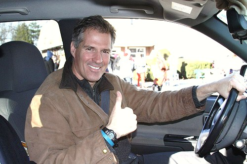 U.S. Senator Scott Brown driving his famous truck License on Flickr (2011-01-07): CC-BY-2.0